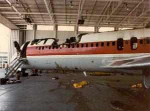 Fire damage of DC-9 C-FTLU (Air Canada Flight 797).